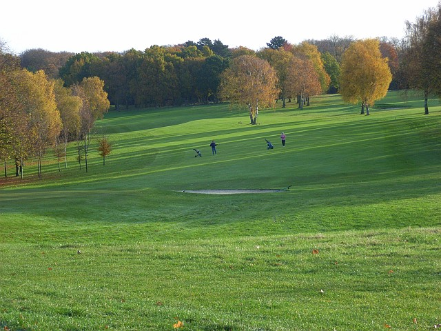 Henley Golf Club A view towards Harpsden Wood.